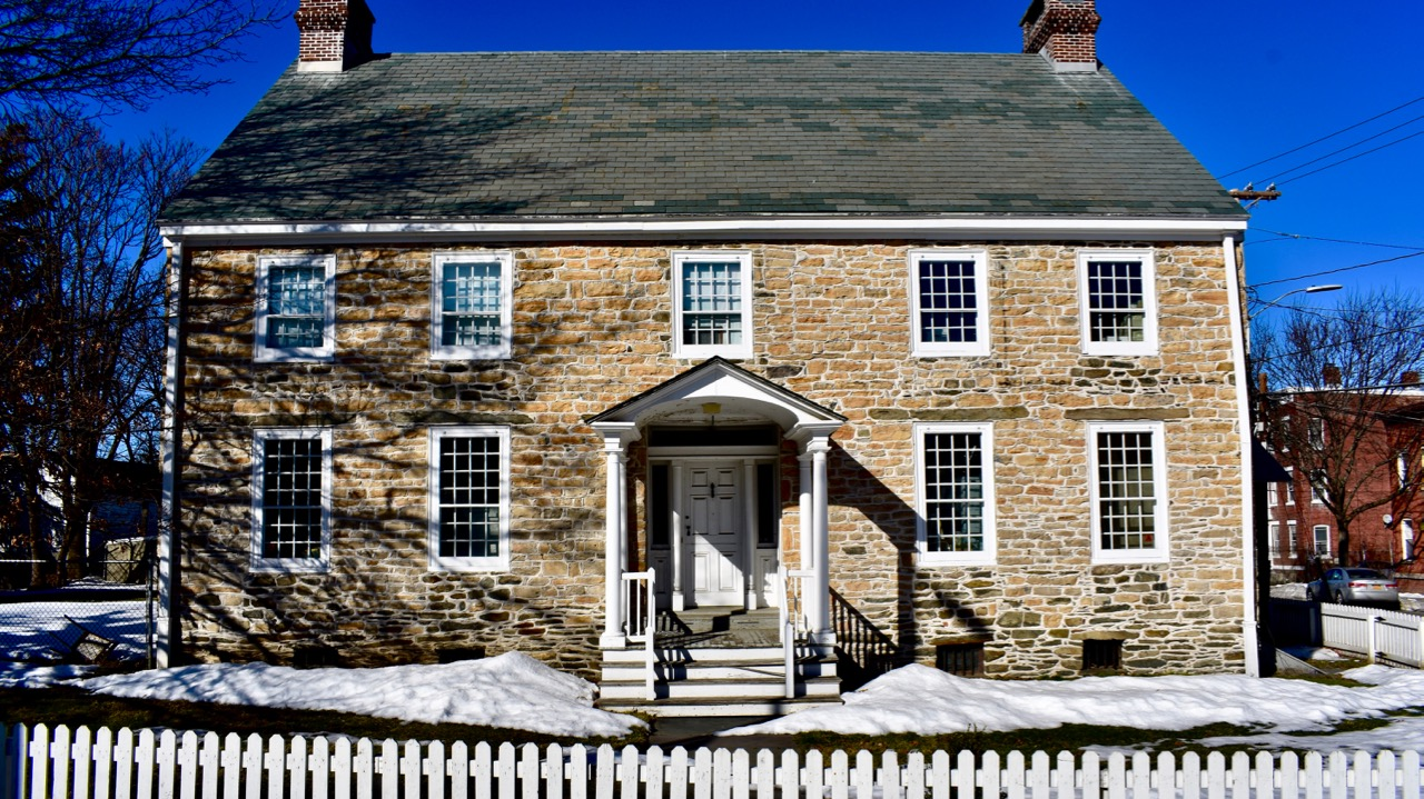 2017 Photograph of exterior of 1765 Clinton House.